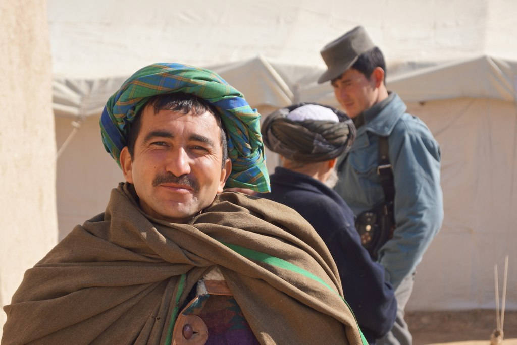 Men in northern Afghanistan